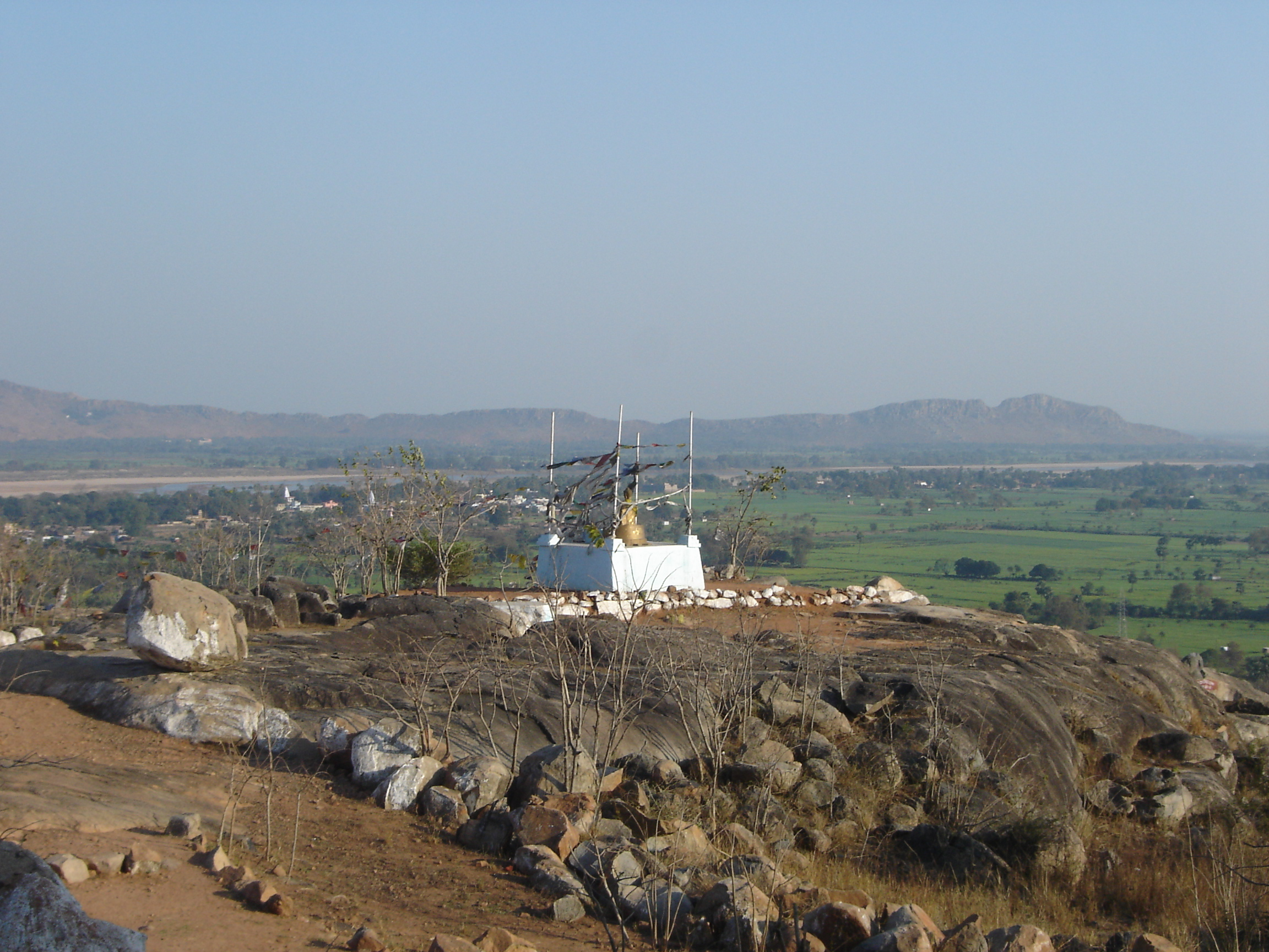 Picture of Brahmayoni hill, or Gayasisa, where Buddha preached the Fire Sutta (Adittapariyaya Sutta). Gaya, Bihar, India.